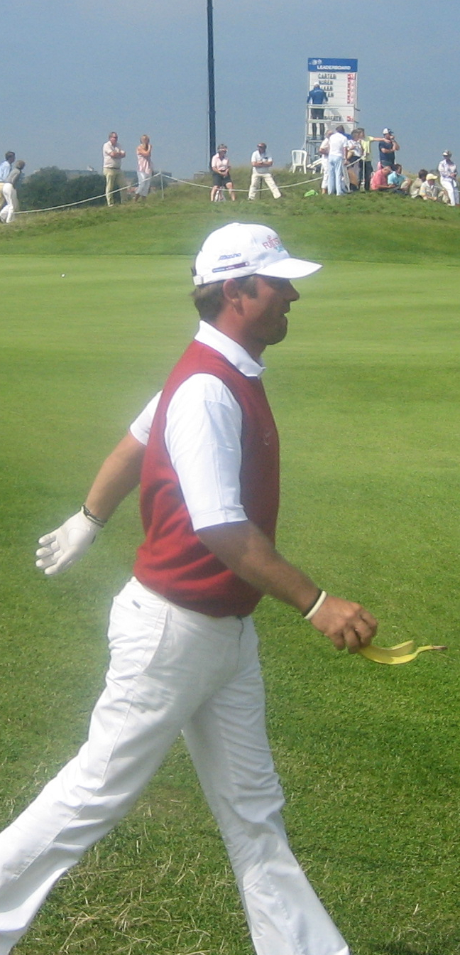 Sven Struver at the 2007 KLM Open